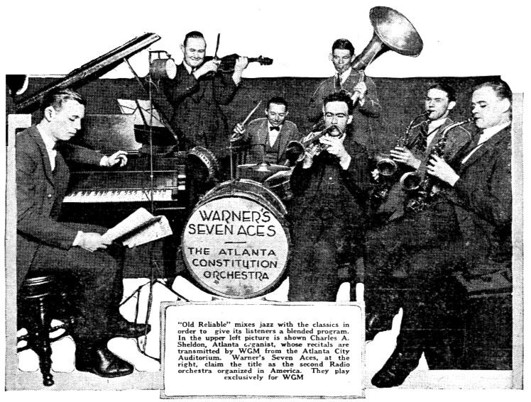 House band "Warner's Seven Aces" at radio station WGM in Atlanta, Georgia